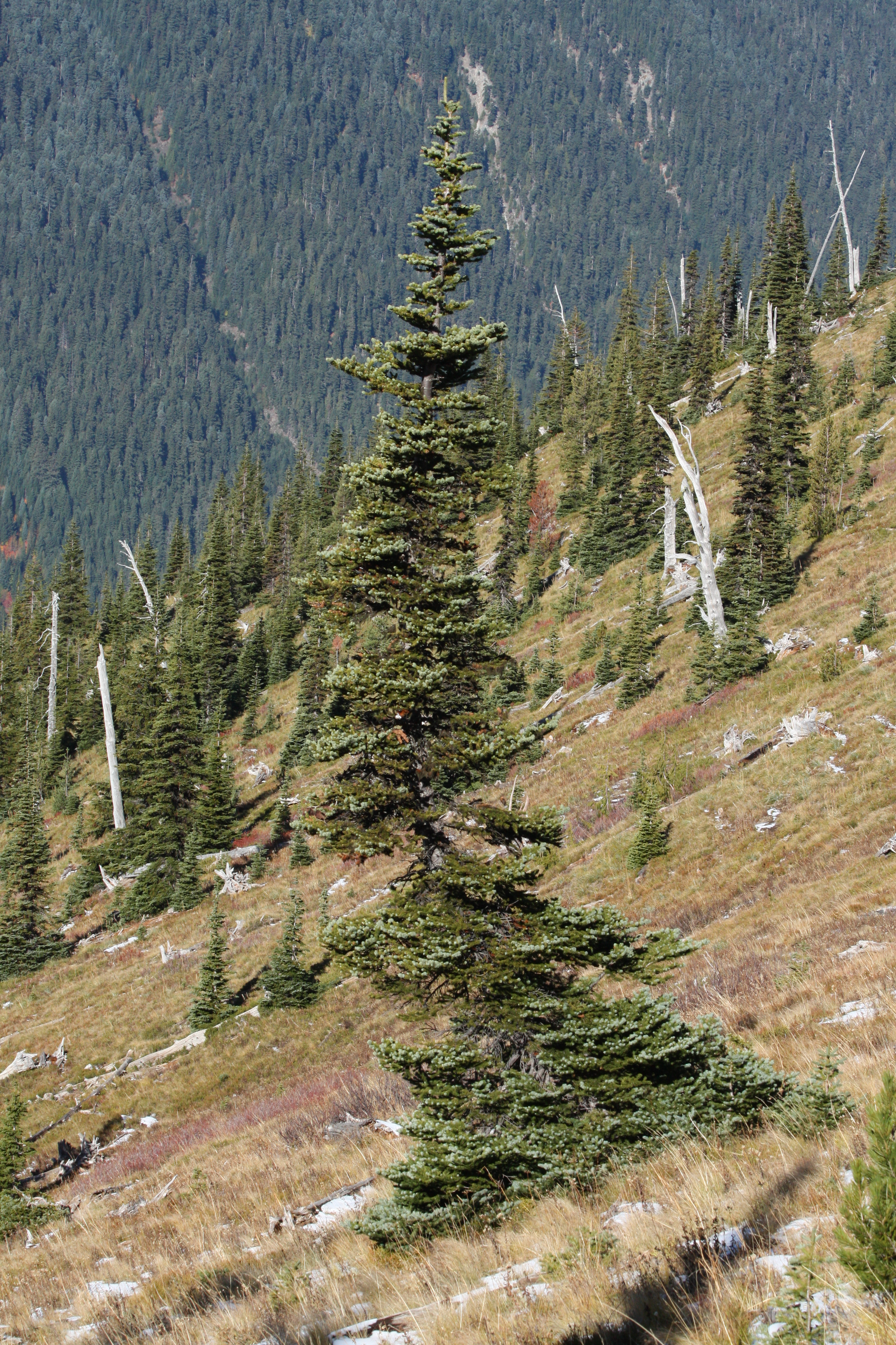 Subalpine Fir deformed by snow